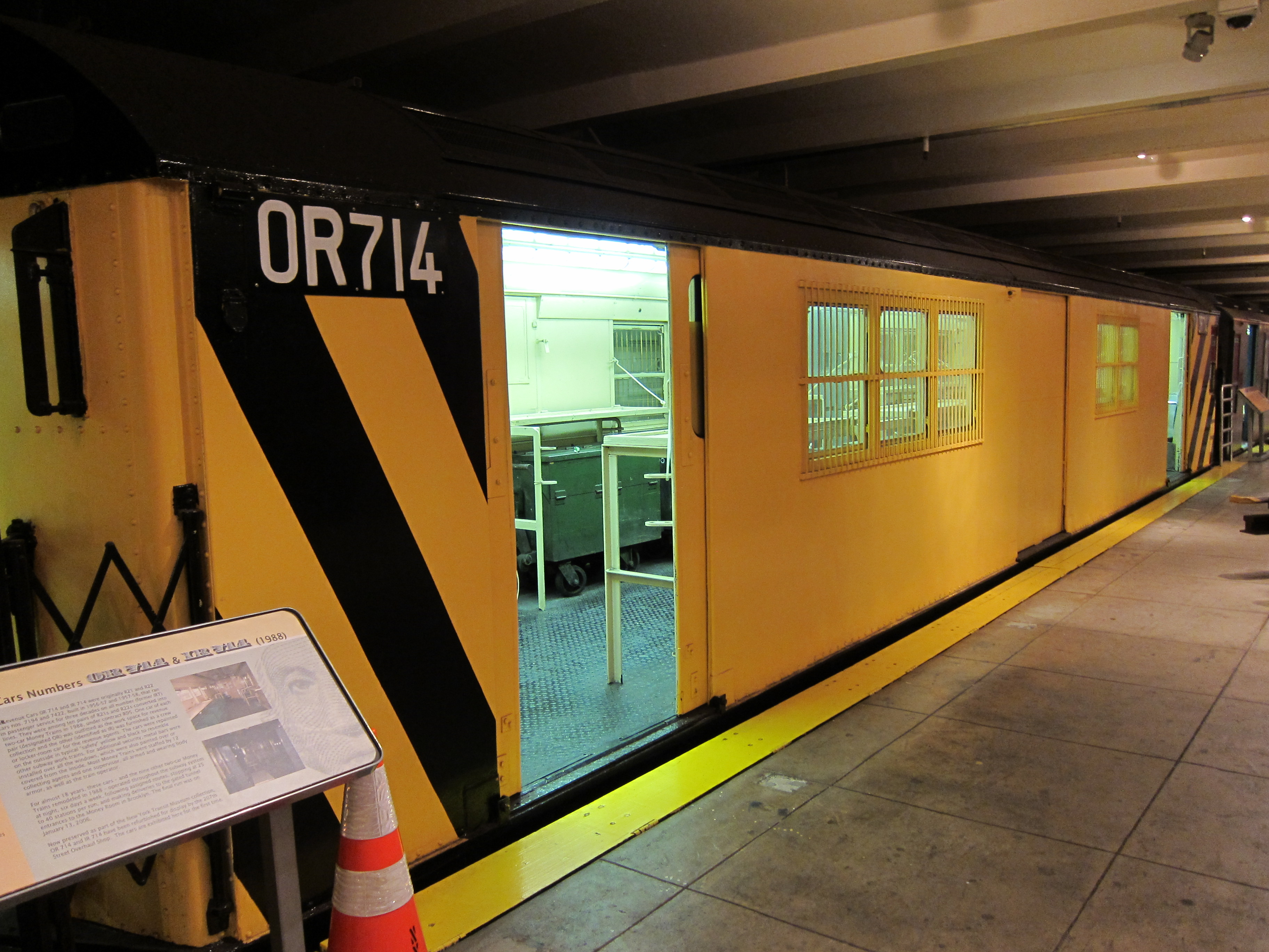 Exterior of a "money train".